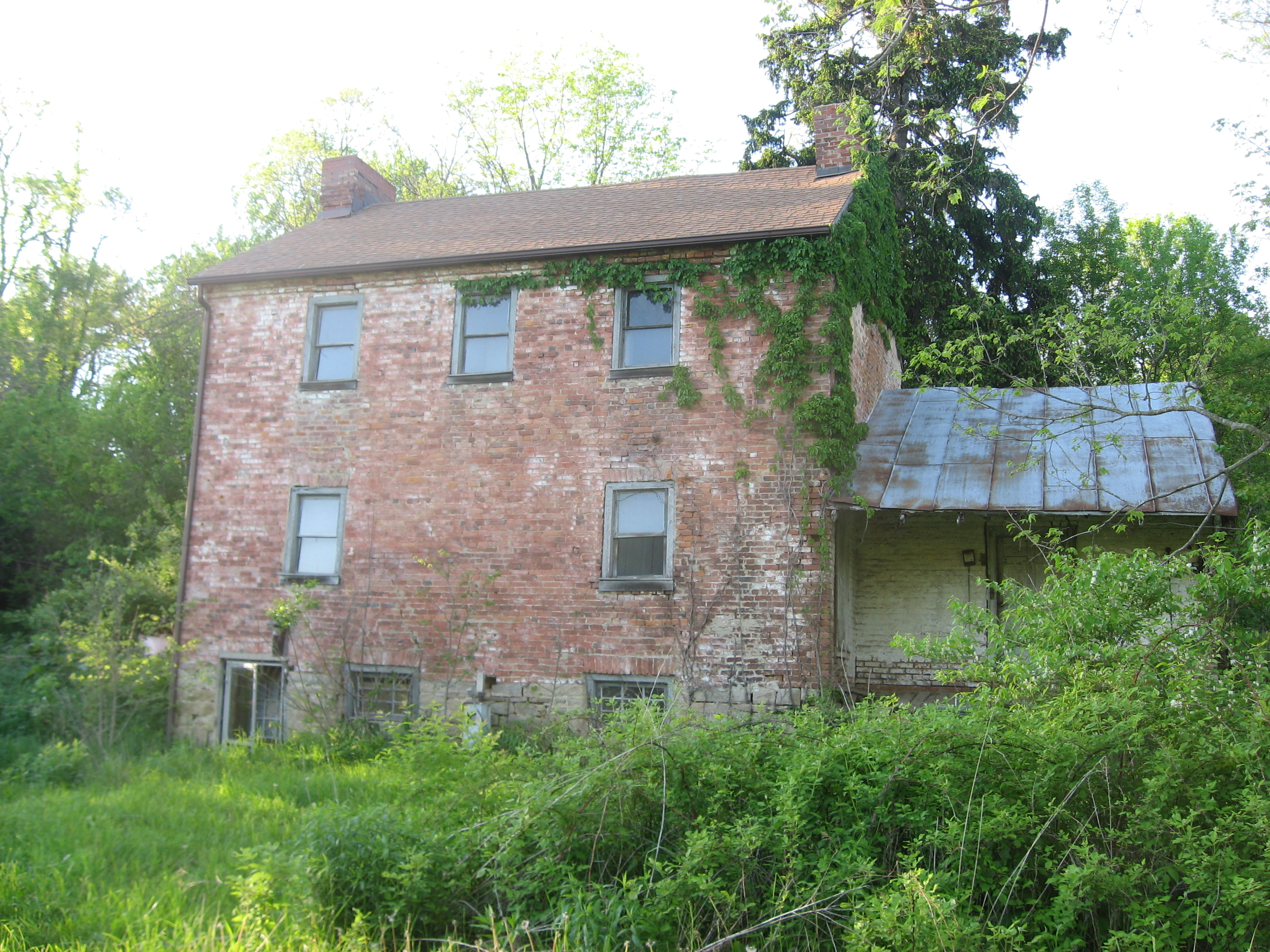 Front of the Martin Marmon House, located along County Road 153 southeast of Zanesfield in Jefferson Township, Logan County, Ohio, United States. Built in 1820 by one of the county's earliest settlers, the house is listed on the National Register of Historic Places.